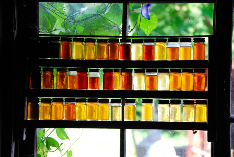 different grades of maple syrup; @ Morse Farm Sugar Works (VT)